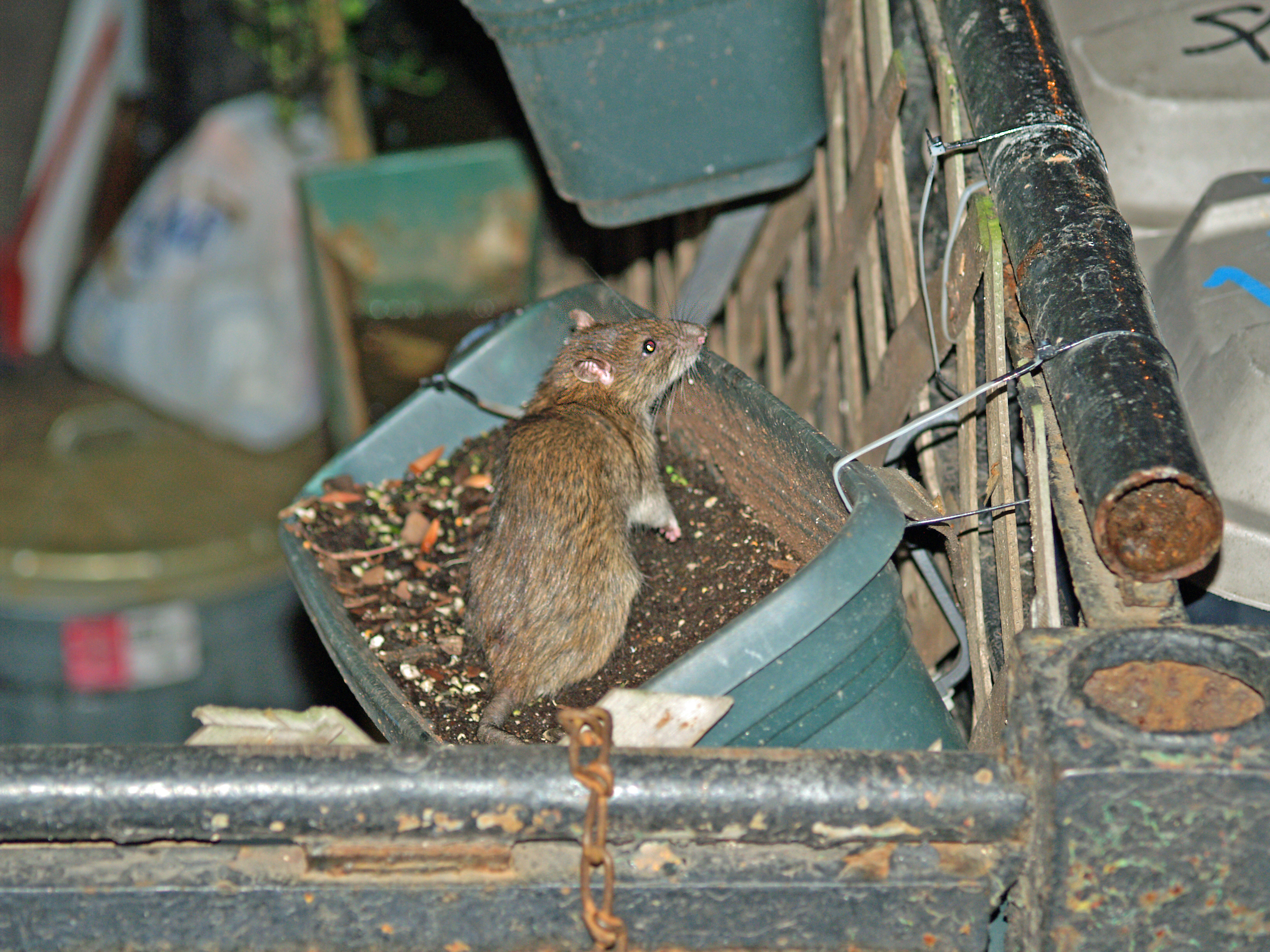 Rat in a flowerbox in New York City.